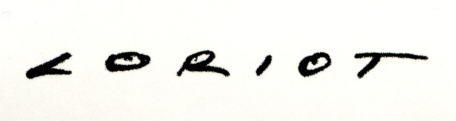 Signature of Loriot (Vicco von Bülow), detail of a German welfare stamp with surcharge from the series "Für die Wohlfahrtspflege" ("For the welfare") Loriot: Herren im Bad ("Men in the bathroom") (at the edge of the stamp block), published by the German Federal Ministry of Finance on 3 January 2011